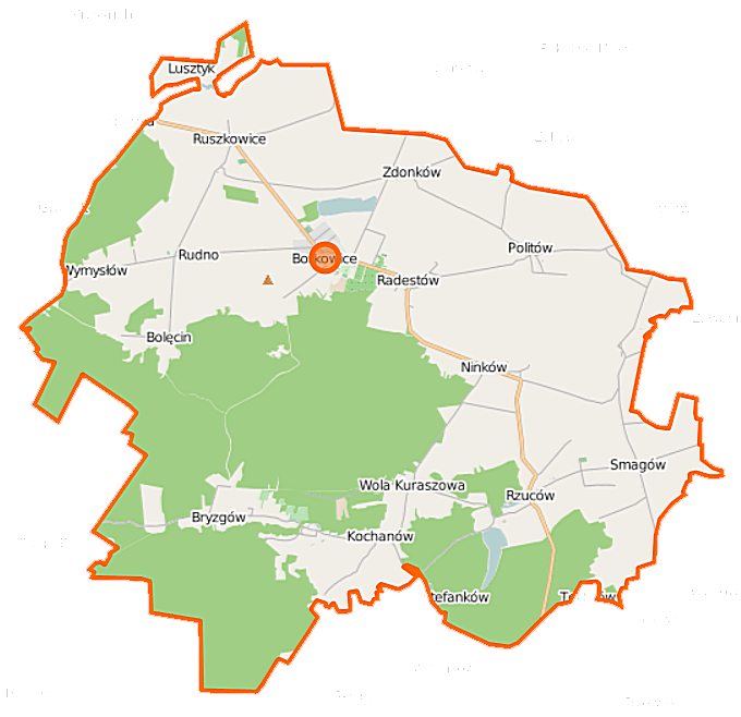 Map of Gmina Borkowice, Poland This map of Borkowice (gmina) was created from OpenStreetMap project data, collected by the community. This map may be incomplete, and may contain errors. Don't rely solely on it for navigation. Border coordinates51.360820.6018←↕→20.788951.2477